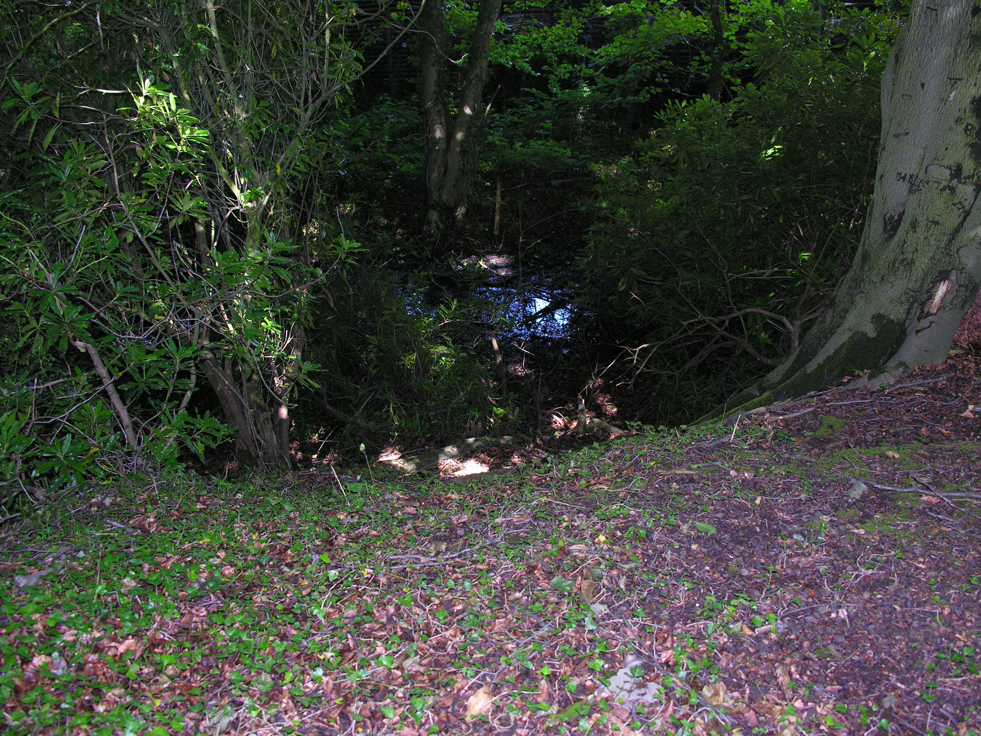 Motte and Bailey at Radyr, viewed from the top of the motte looking down into the water filled moat